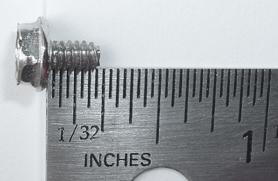 This is a 6-32 Unified Thread Standard computer case screw accompanied by a ruler positioned to indicate its thread pitch (distance between its adjacent threads); its major thread diameter is 0.1380 inches with a pitch (distance between adjacent threads) of 1/32 inch. It is by far the most common screw found inside computer cases and commonly appears in lengths of 0.15 and 0.25 inch.